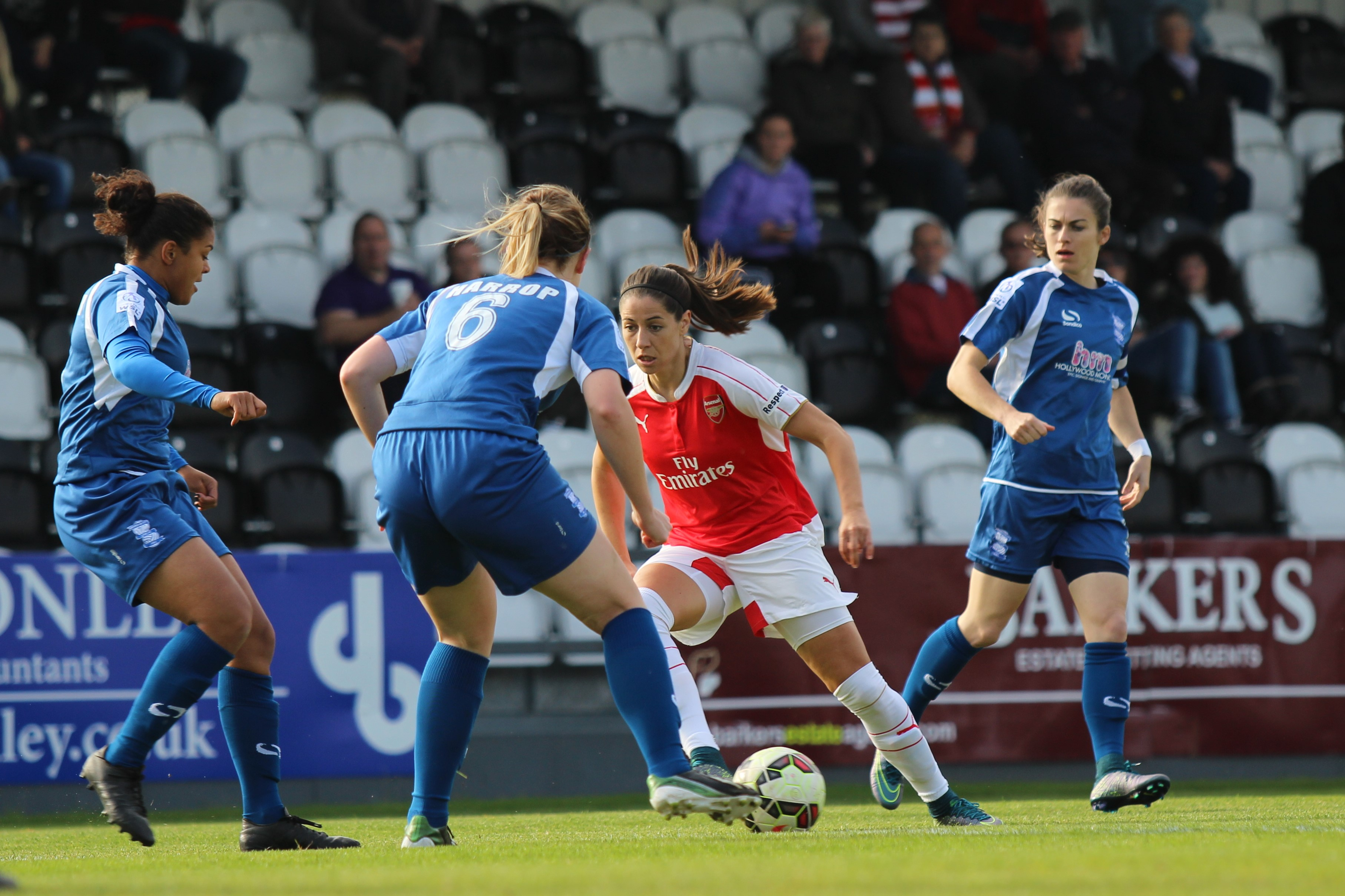 Vicky Losada of Arsenal Ladies on the ball during the game against Birmingham.